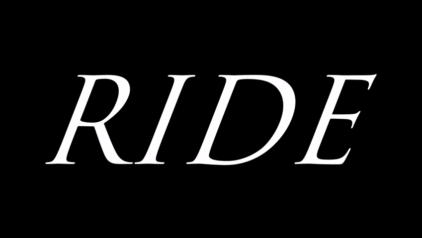 Opening card for Del Rey's film for her song Ride